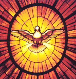 Gian Lorenzo Bernini - Dove of the Holy Spirit (ca. 1660, stained glass, Throne of St. Peter, St. Peter's Basilica, Vatican)